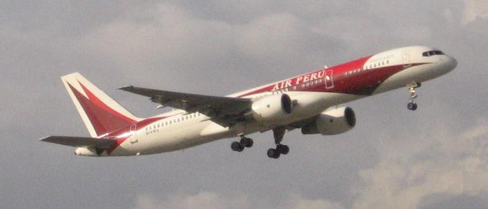 Boeing 757-200 N741PA titled Air Peru takes off from Fort Lauderdale/Hollywood International Airport (FLL) in Fort Lauderdale, Florida